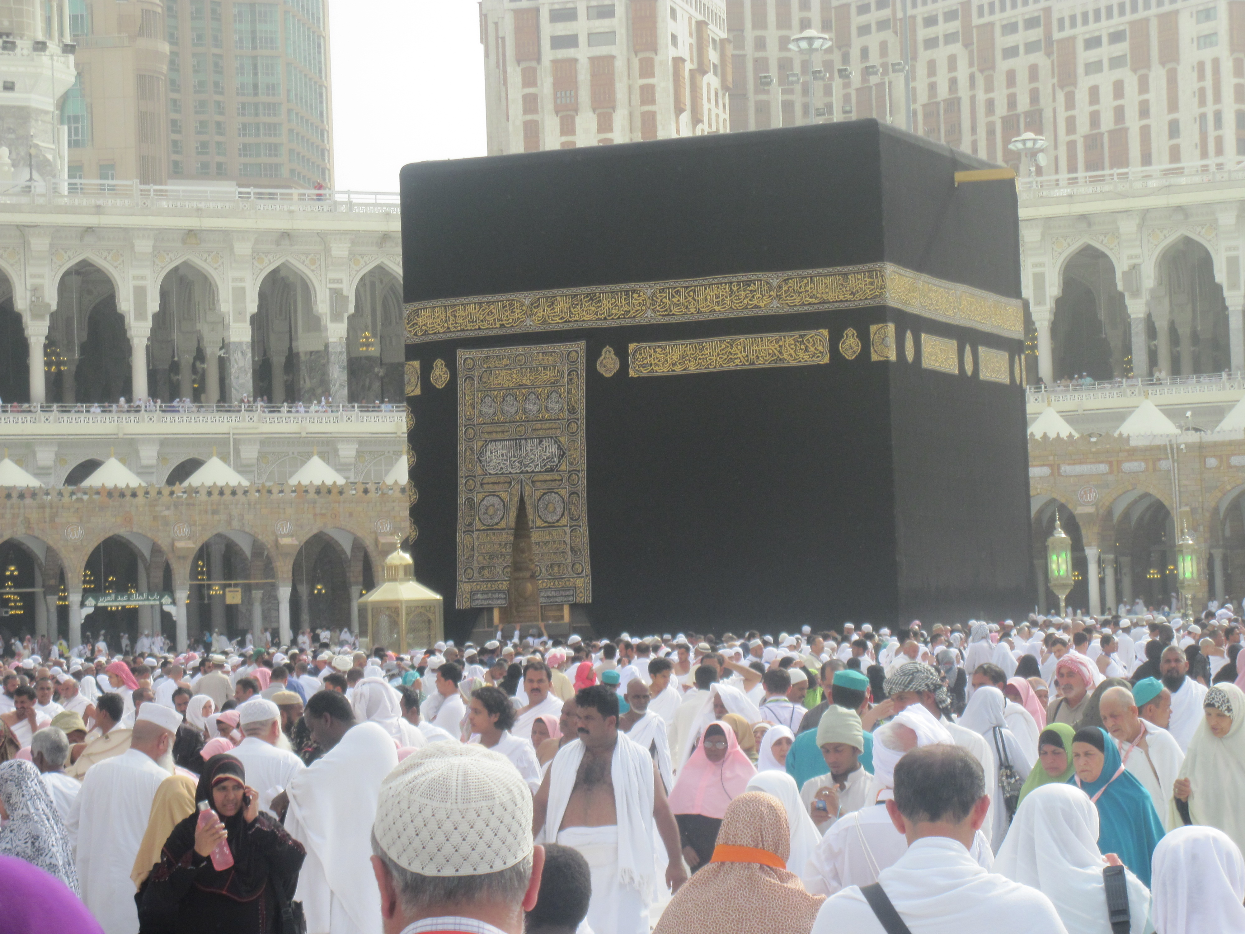 Kaaba in Mecca, 2013